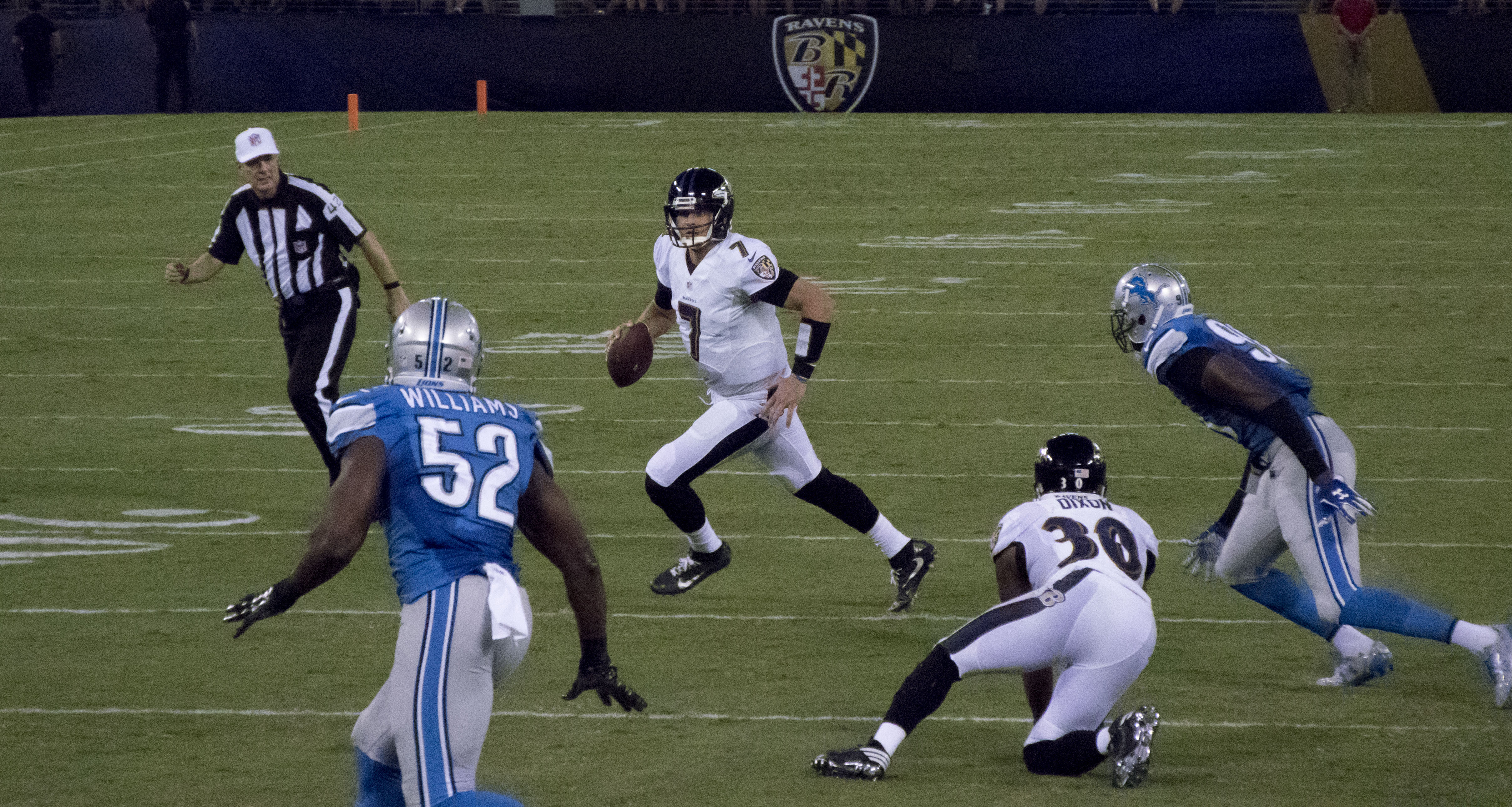 Lions at Ravens 8/27/16